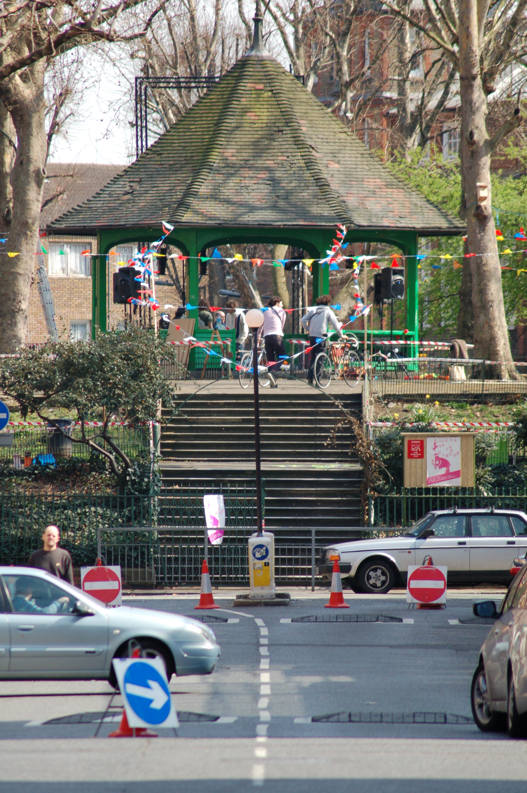 Boundary Estate, Shoreditch bandstand I dunnit, please use freely and attribute.